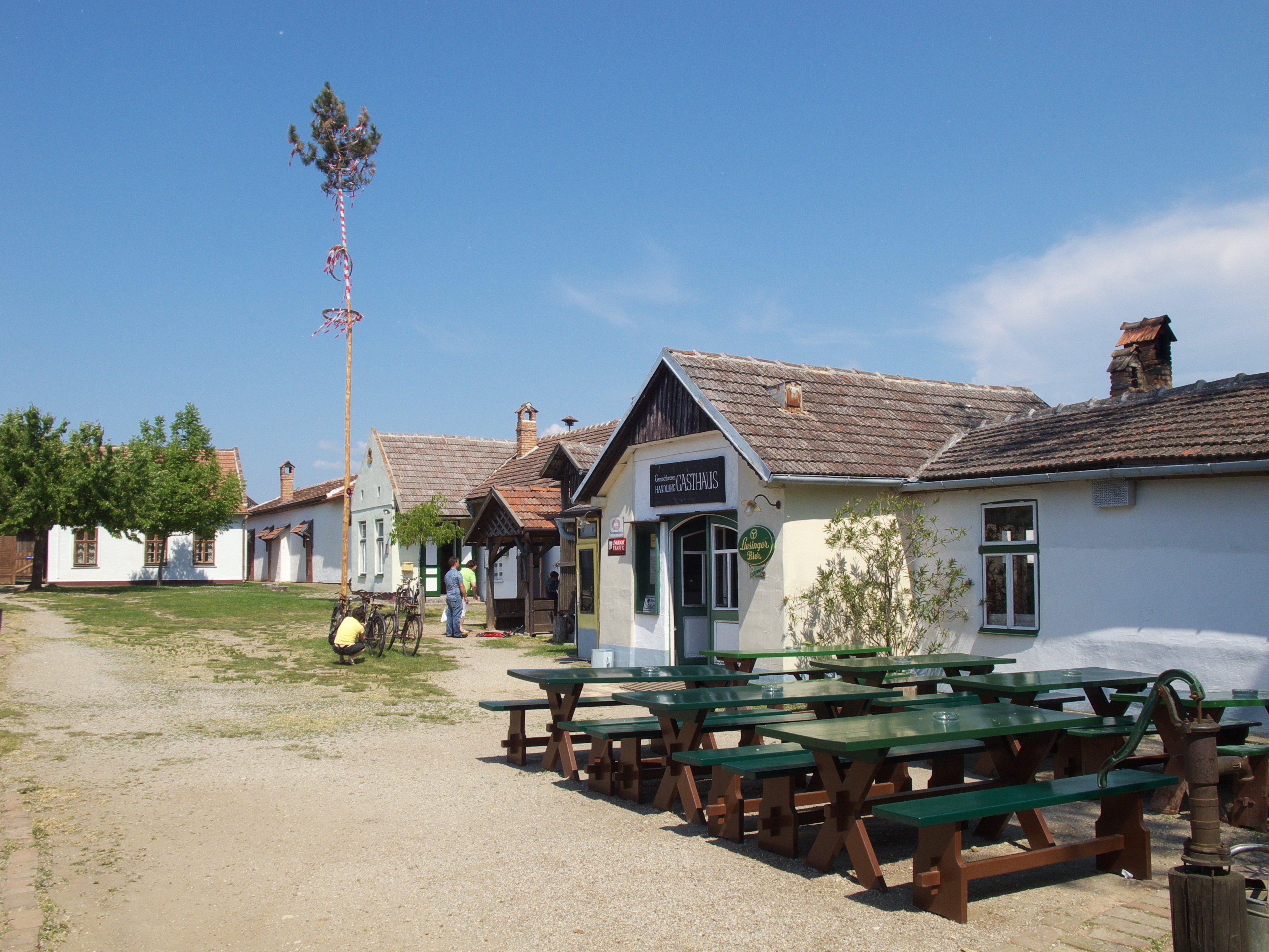 Mönchhof village museum, village square with inn.